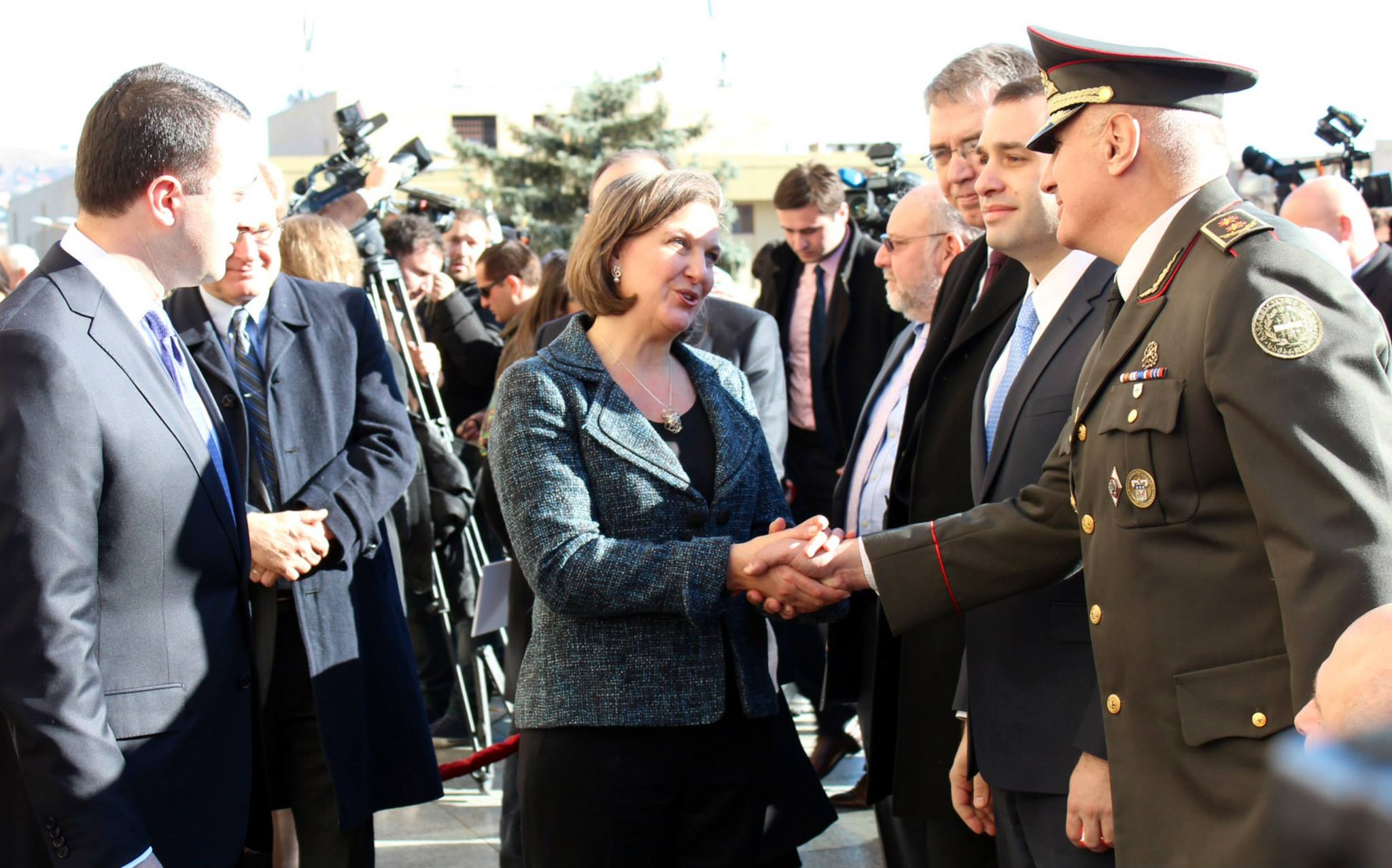 On December 6, 2013, Victoria Nuland, U.S. Assistant Secretary of State for European and Eurasian Affairs, joined Prime Minister Garibashvili and Defense Minister Alasania for a ribbon-cutting of a USAID-funded accessibility ramp at the State Chancellery building. The ramp provides access to the main government building in Georgia, which includes the offices of the Prime Minister and signifies the importance of providing equal access to all. The event was organized by 26 disability organizations under Georgia's Coalition for Independent Living, in partnership with the Prime Minister's Administration and the United States Government.